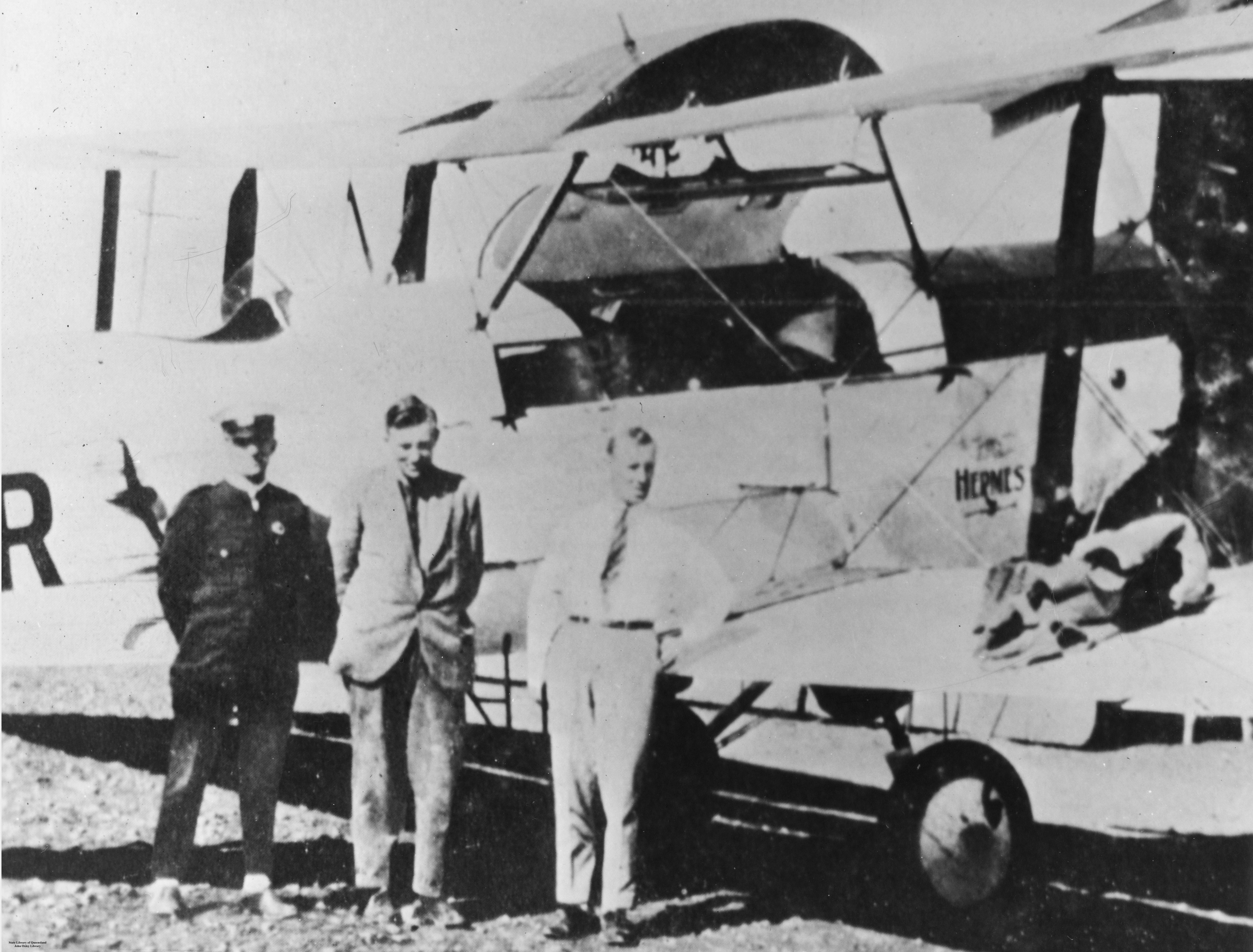 Royal Flying Doctor Service, Cloncurry, 1927